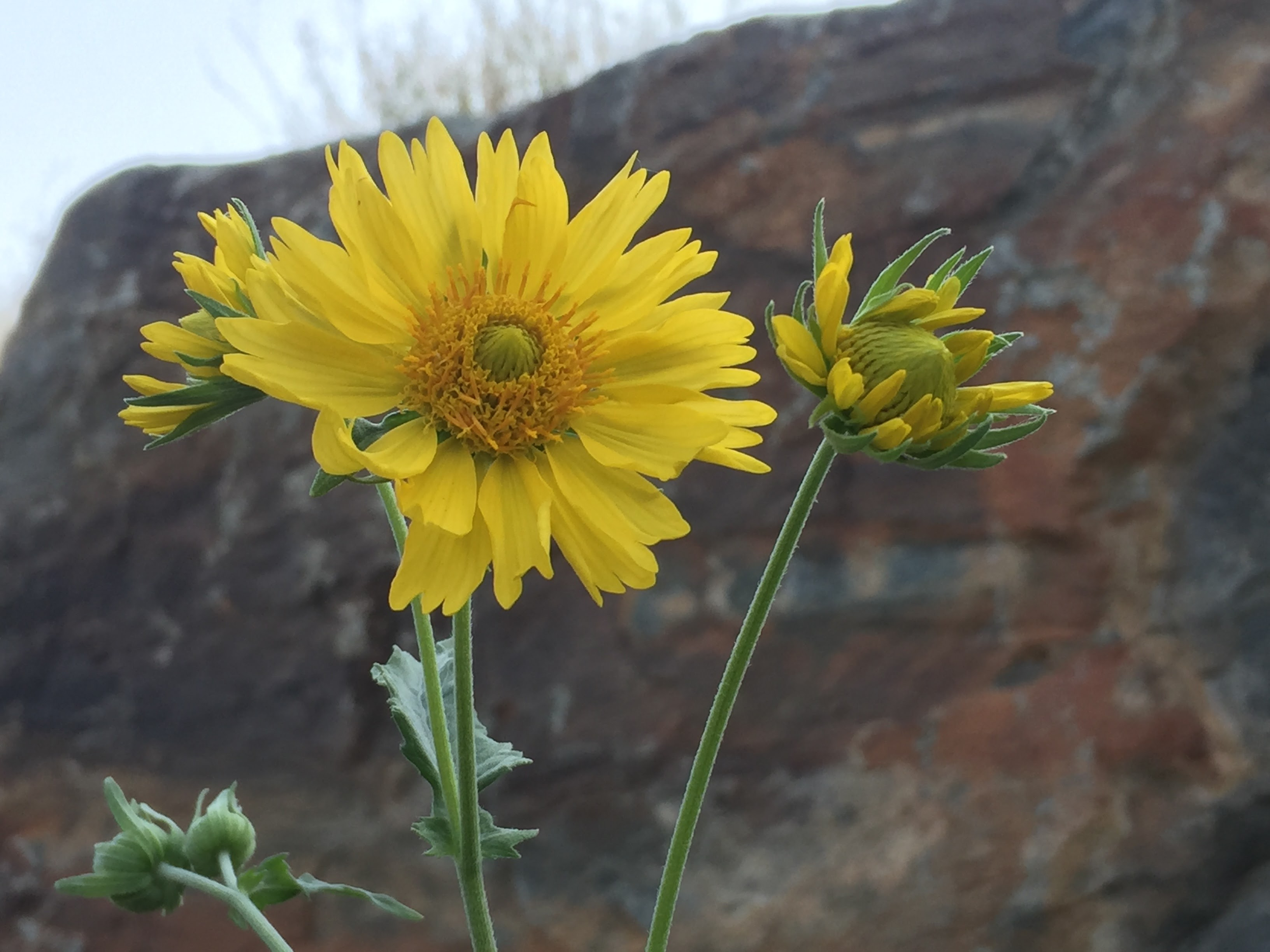 A sunflower blooming in Alshafa area in Taif city, Saudi Arabia